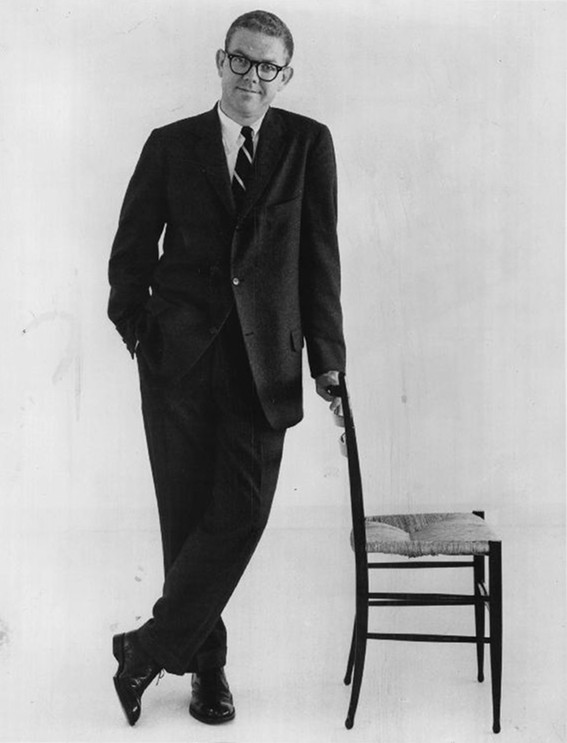 Publicity photo of American satirist Stan Freberg.